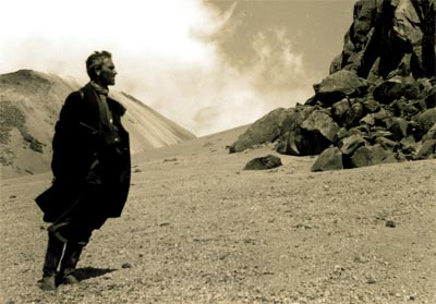 The Colombian philosopher Fernando González Ochoa in El Ruiz Snow Mountain in 1928 in the trip that inspired his work "Trip By Foot", published in 1929.